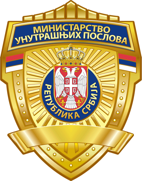 The emblem of the Ministry of Internal Affairs of the Republic of Serbia